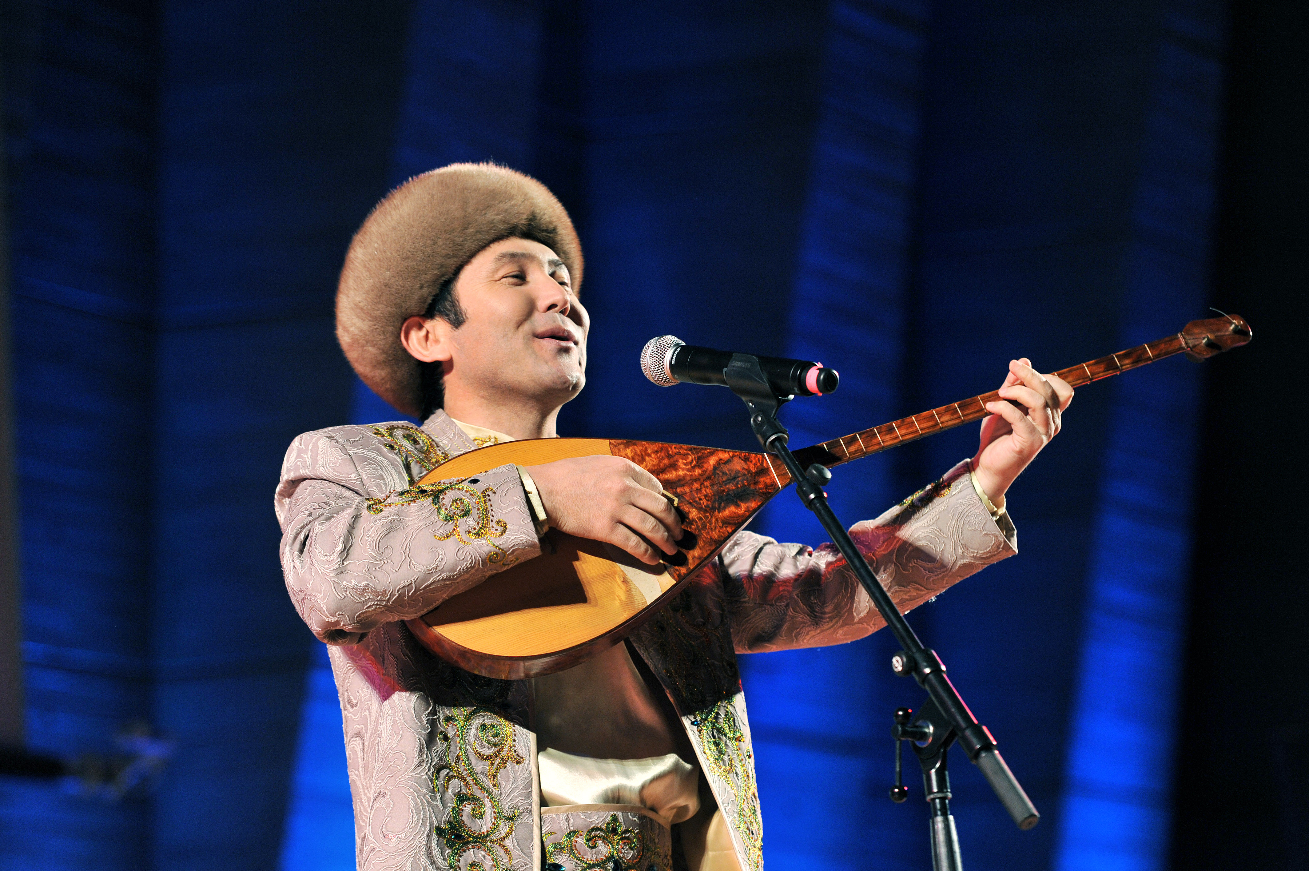 Celebration of Nowruz shared by several countries: Iran, Afghanistan, Azerbaijan, Russian Federation, Kazakhstan, Uzbekistan, Pakistan and Turkey. UNESCO Headquarters, ParisRomână: Celebrarea Nowruz de către câteva țări: Iran, Afganistan, Azerbaidjan, Federația Rusă, Kazahstan, Uzbekistan, Pakistan și Turcia. Sediul UNESCO, Paris.